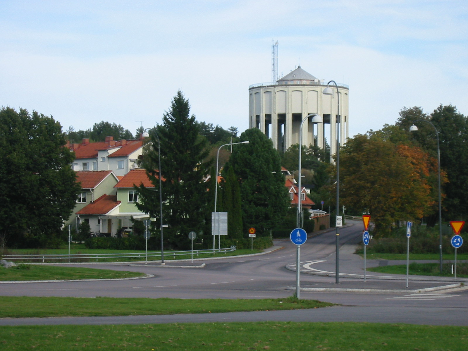 The water tower in Skallberget, Västerås